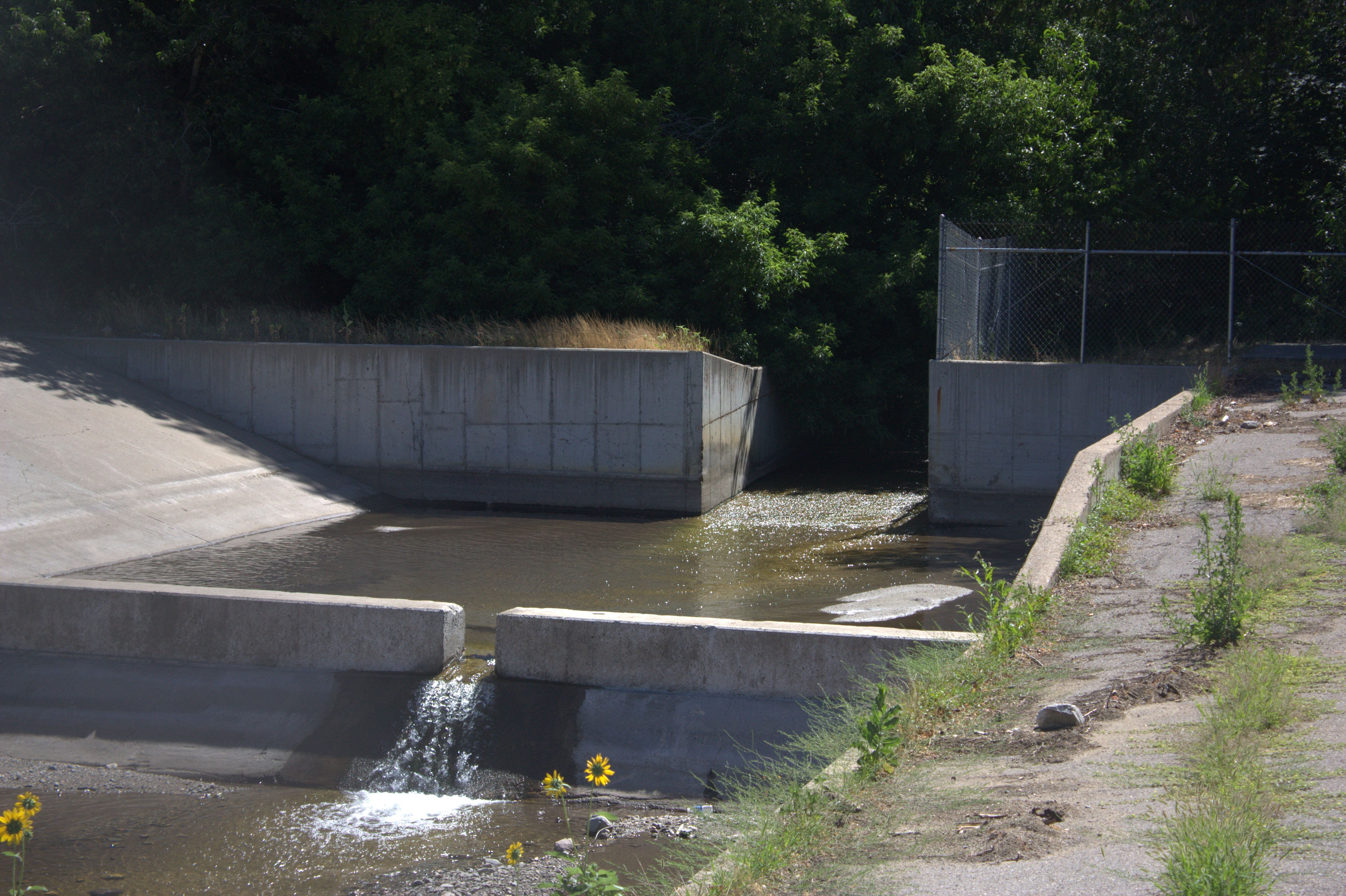 Debris Catch Site constructed by Bountiful City and Davis County where Mill Creek meets Orchard Drive. Near Heber C. Kimball Gristmill site.